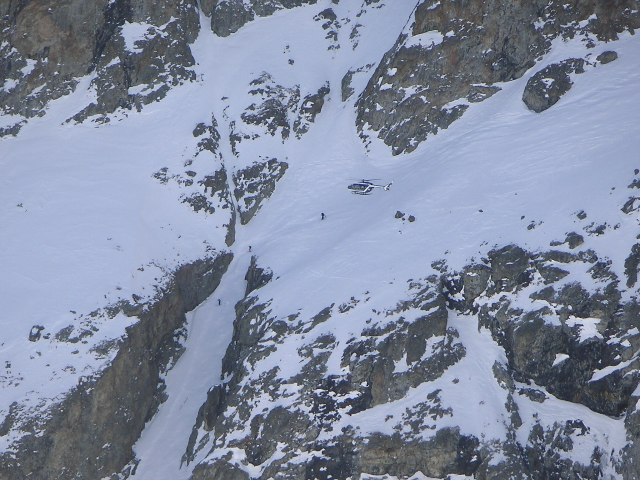 Off-piste skiers at risk, rescued by an helicopter